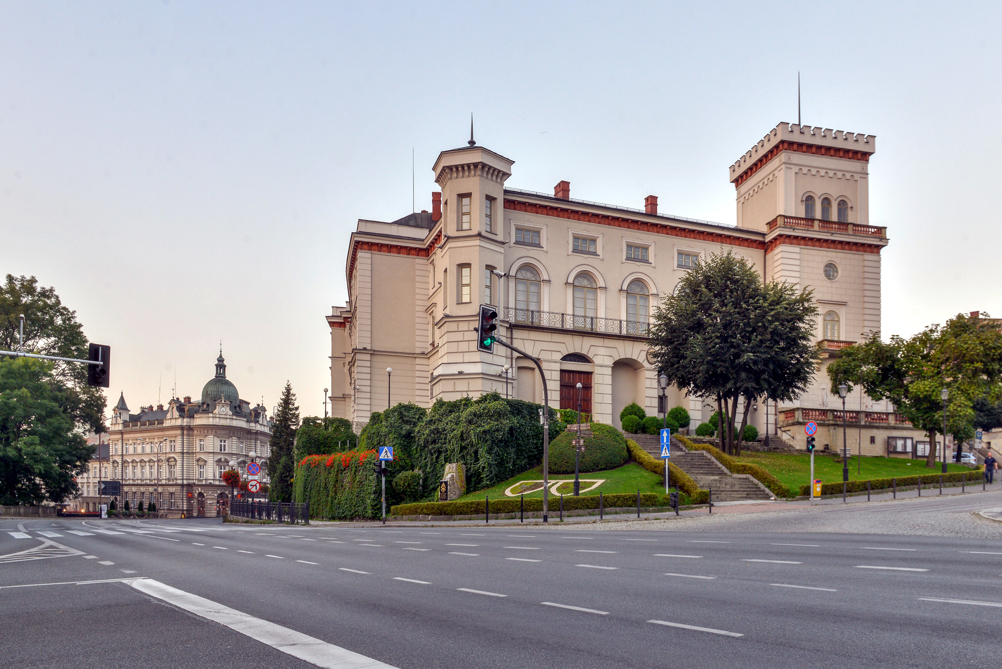 Sulkowski Castle in Bielsko-Biala, Poland